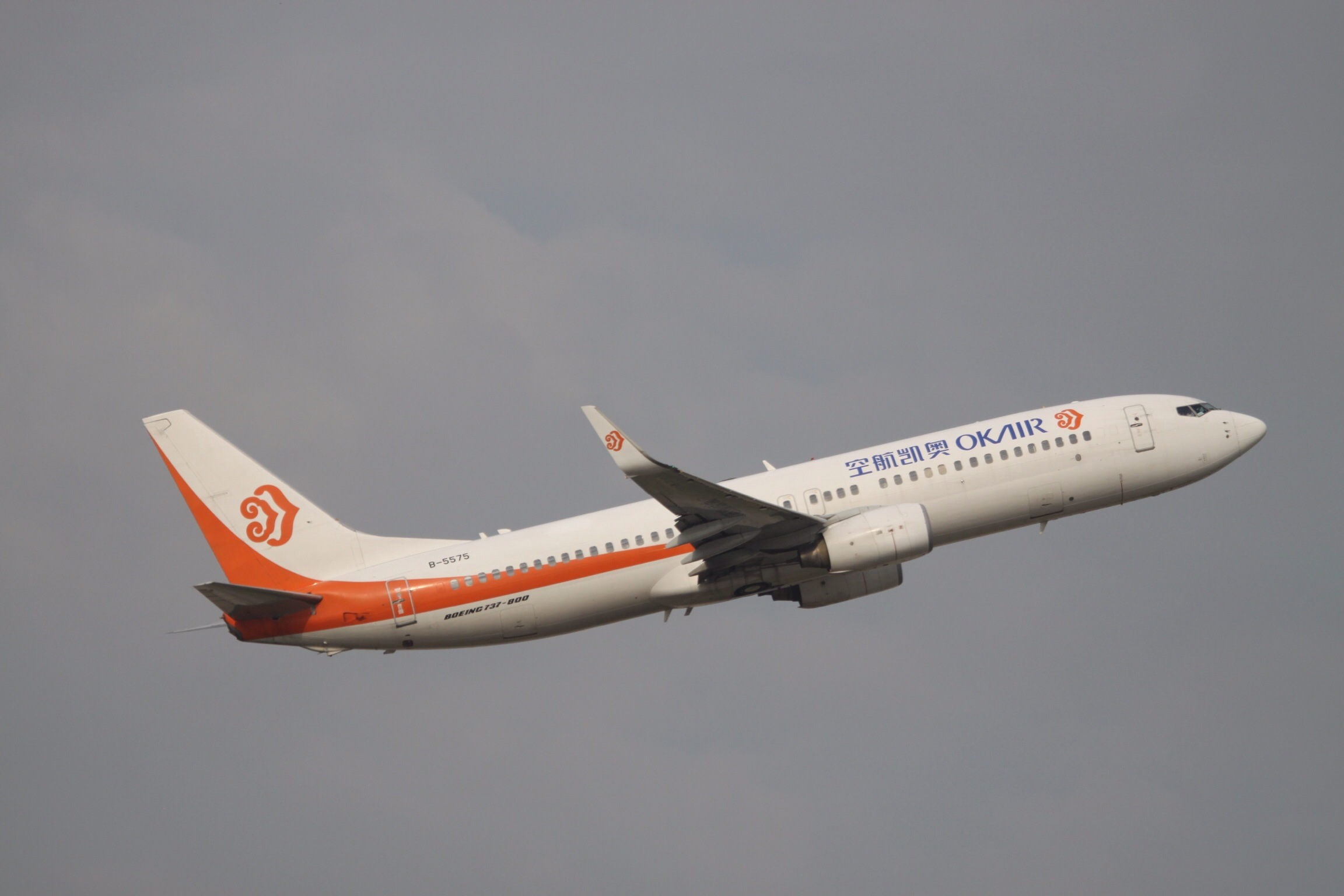 At Shenzhen Bao'an International Airport